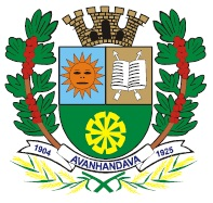 Brasão de Avanhandava